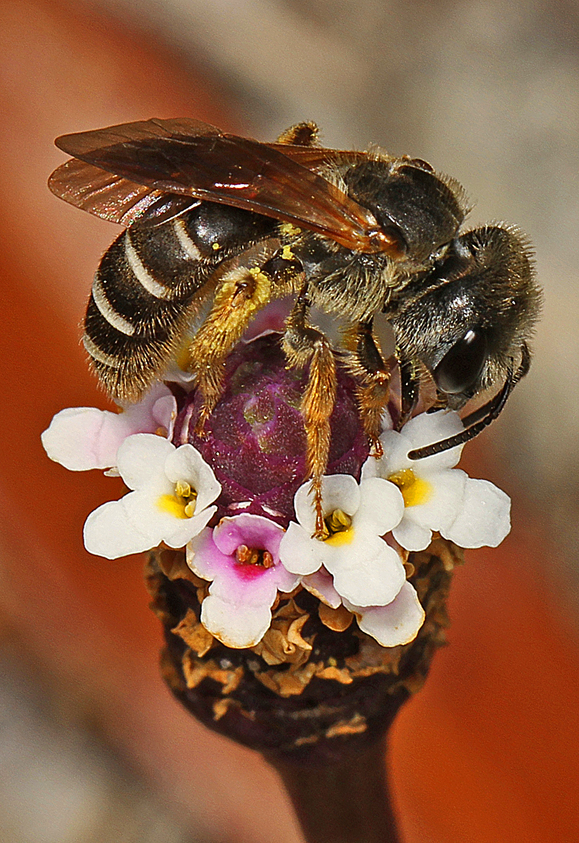 Sweat Bee - Halictus poeyi, Harris Neck National Wildlife Refuge, Townsend, Georgia. The flower this bee is on has the lovely name of Turkey Tangle Fogfruit